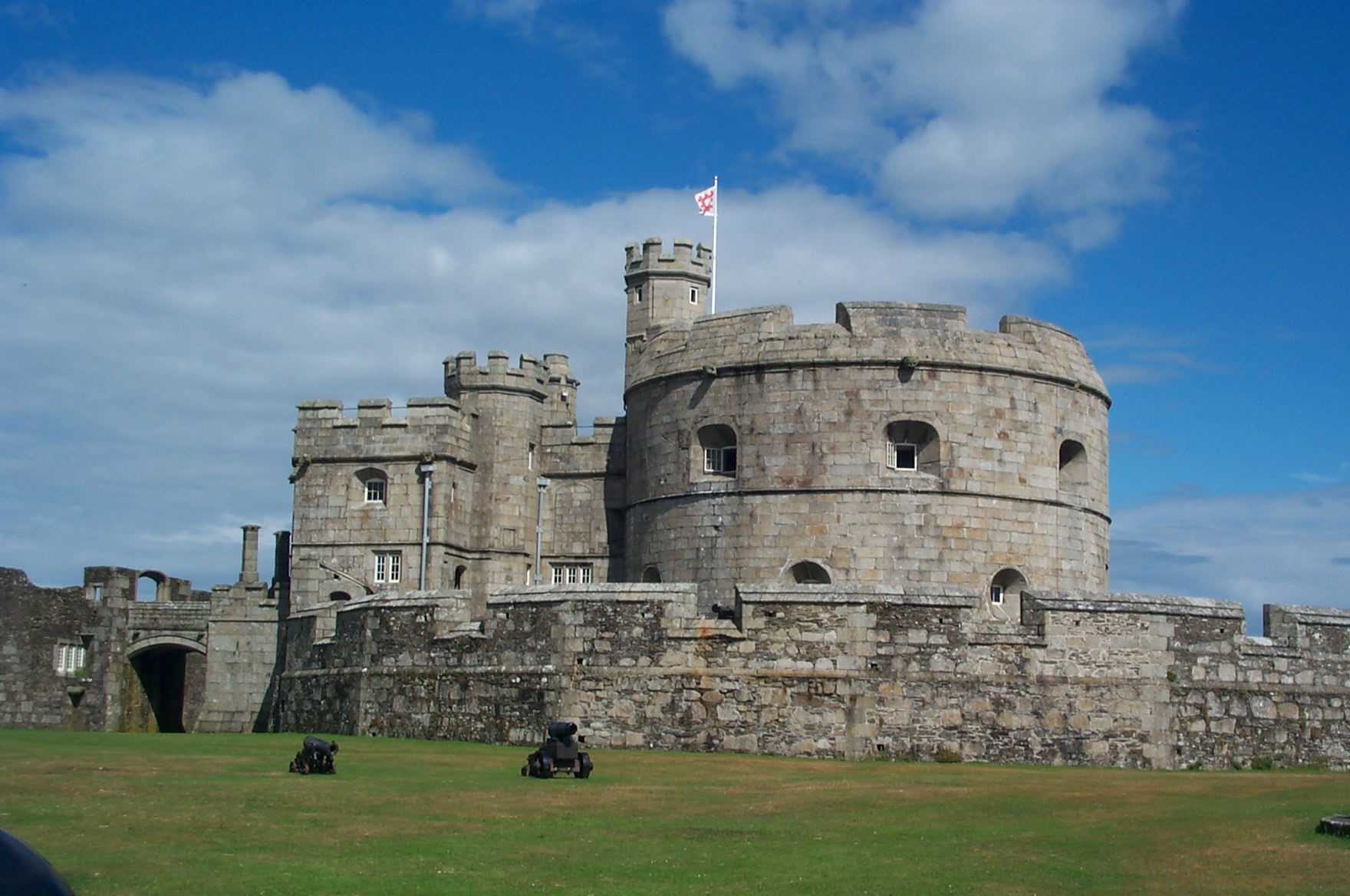 Pendennis Castle keep near Falmouth in Cornwall, taken from the south.